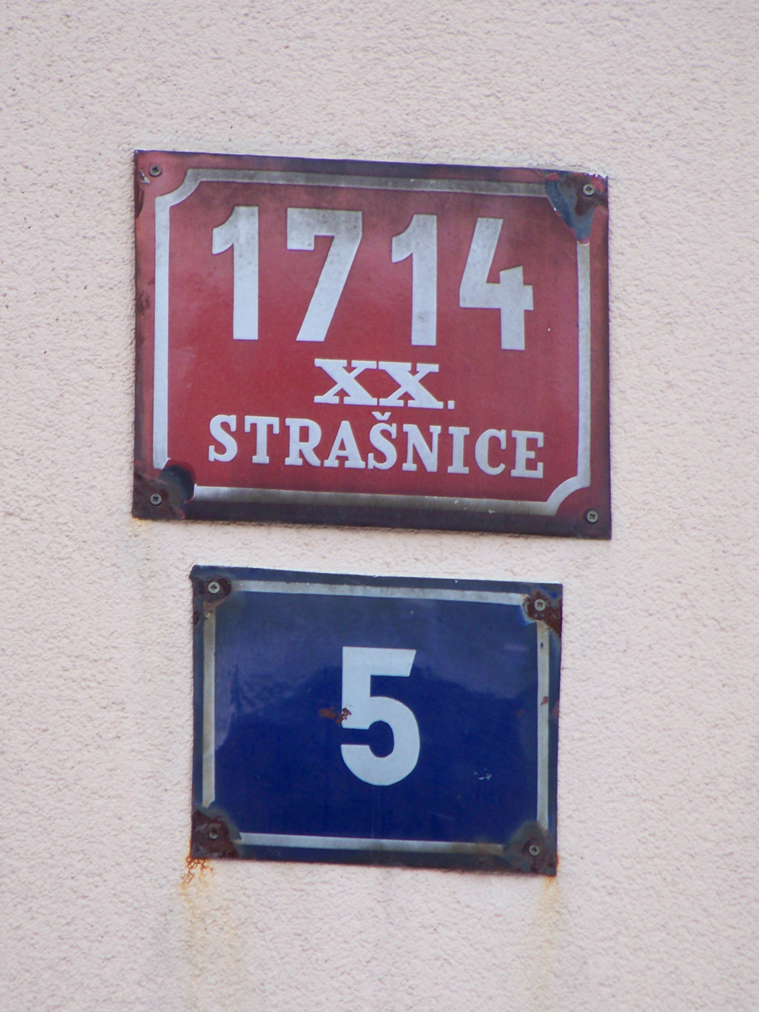 Prague-Strašnice, the Czech Republic. Mirošovická street, a house number from years 1947–1949.